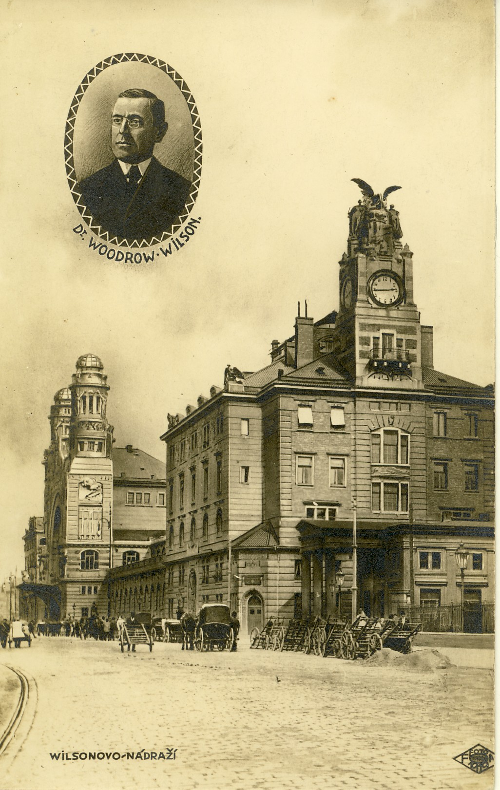 Local Accession Number: PC119 Description: Czech postcard depicting a train station in Prague, named after President Wilson. Photographer: Unknown Source: Purchased from Joe Kanturek, Flushing, N.Y., 03/18/1994. Size: 3x5 Medium: Print, Sepia Date: c. 1918-1925